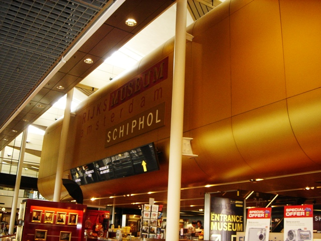 Rijksmuseum Amsterdam Schiphol, Amsterdam.